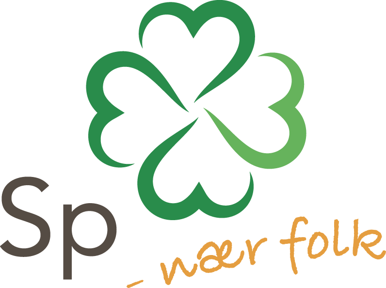 Logo The Centre Party (Norway)